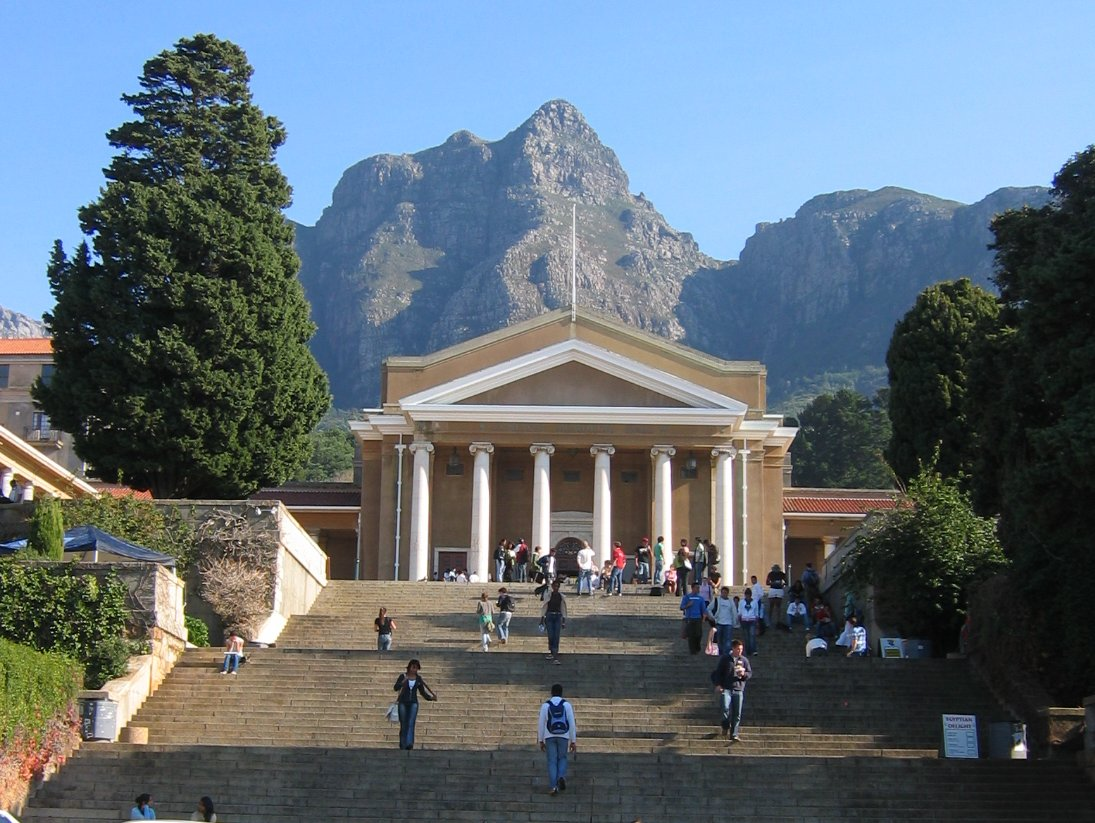 Jameson Hall and Jammie Steps at the University of Cape Town.